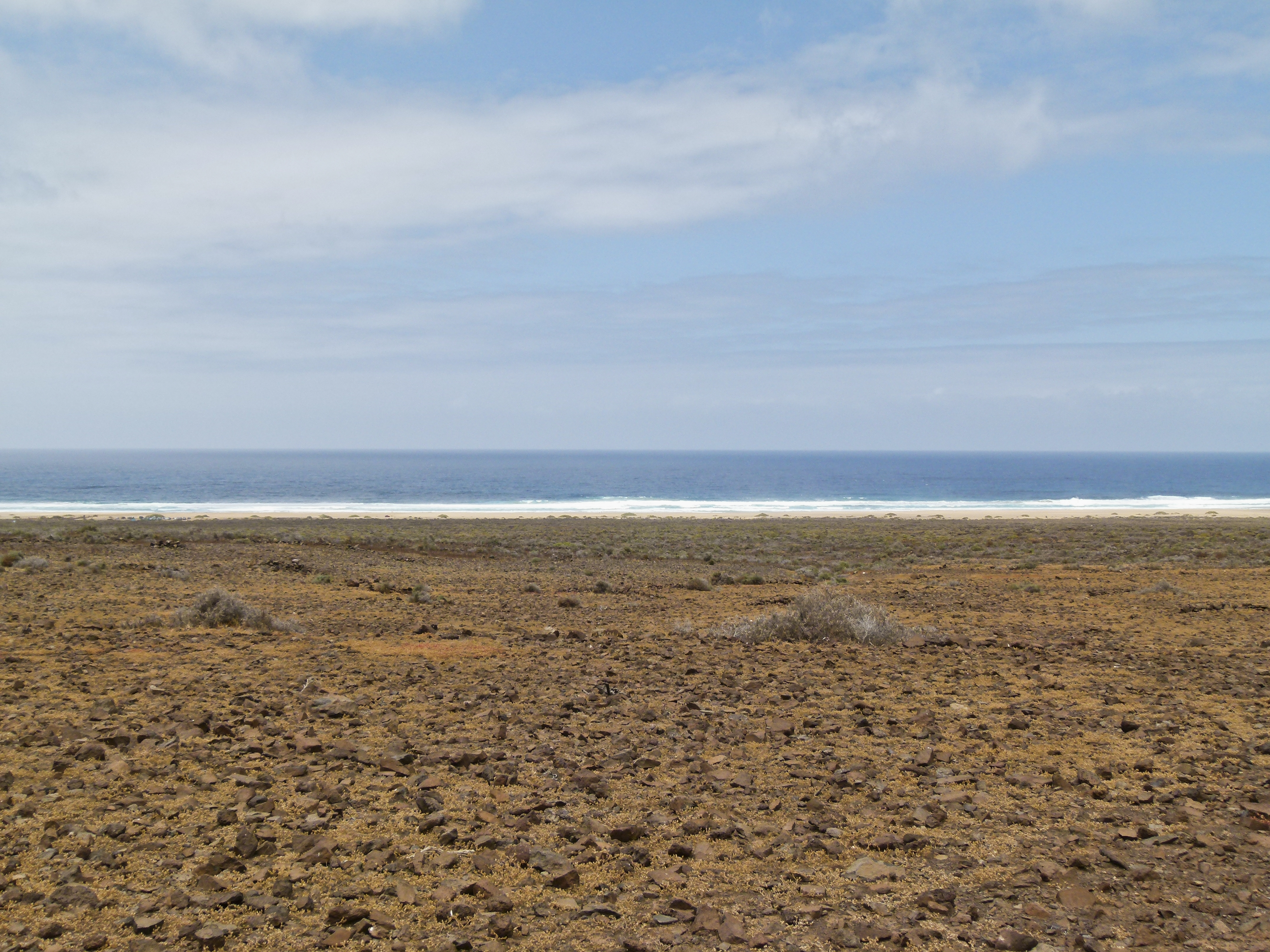 El Cofete, Pájara, Jandia, Fuerteventura, Canary Islands, Spain.